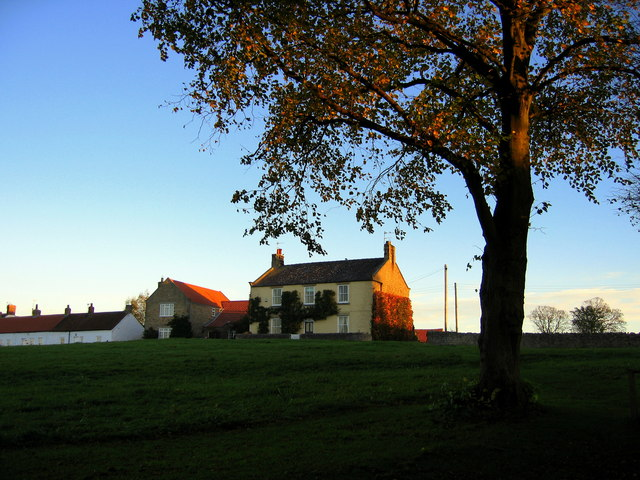 Headlam Village Very early morning in autumn. Taken from the gates of Headlam Hall